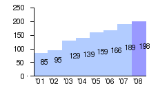 Shows cumulative orders for the A380